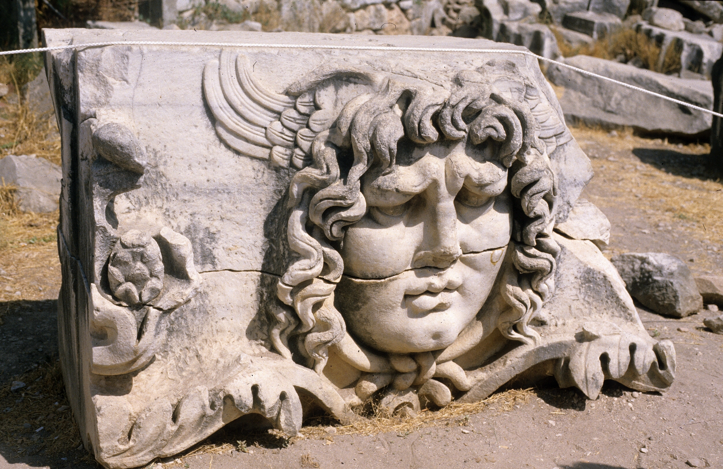 The Medusa of Didyma